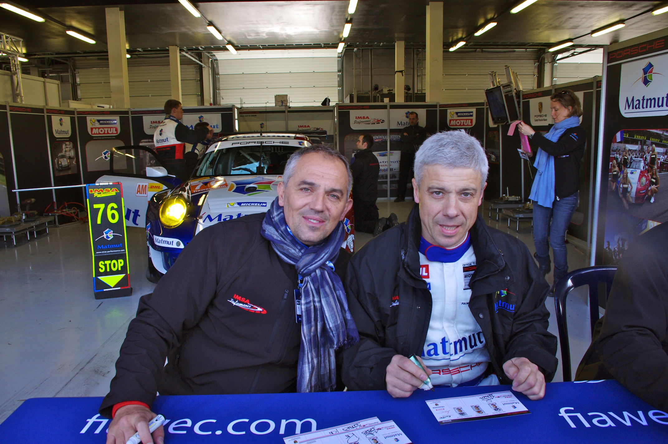 Silverstone 6 Hours 2013 FIA World Endurance Championship (WEC)